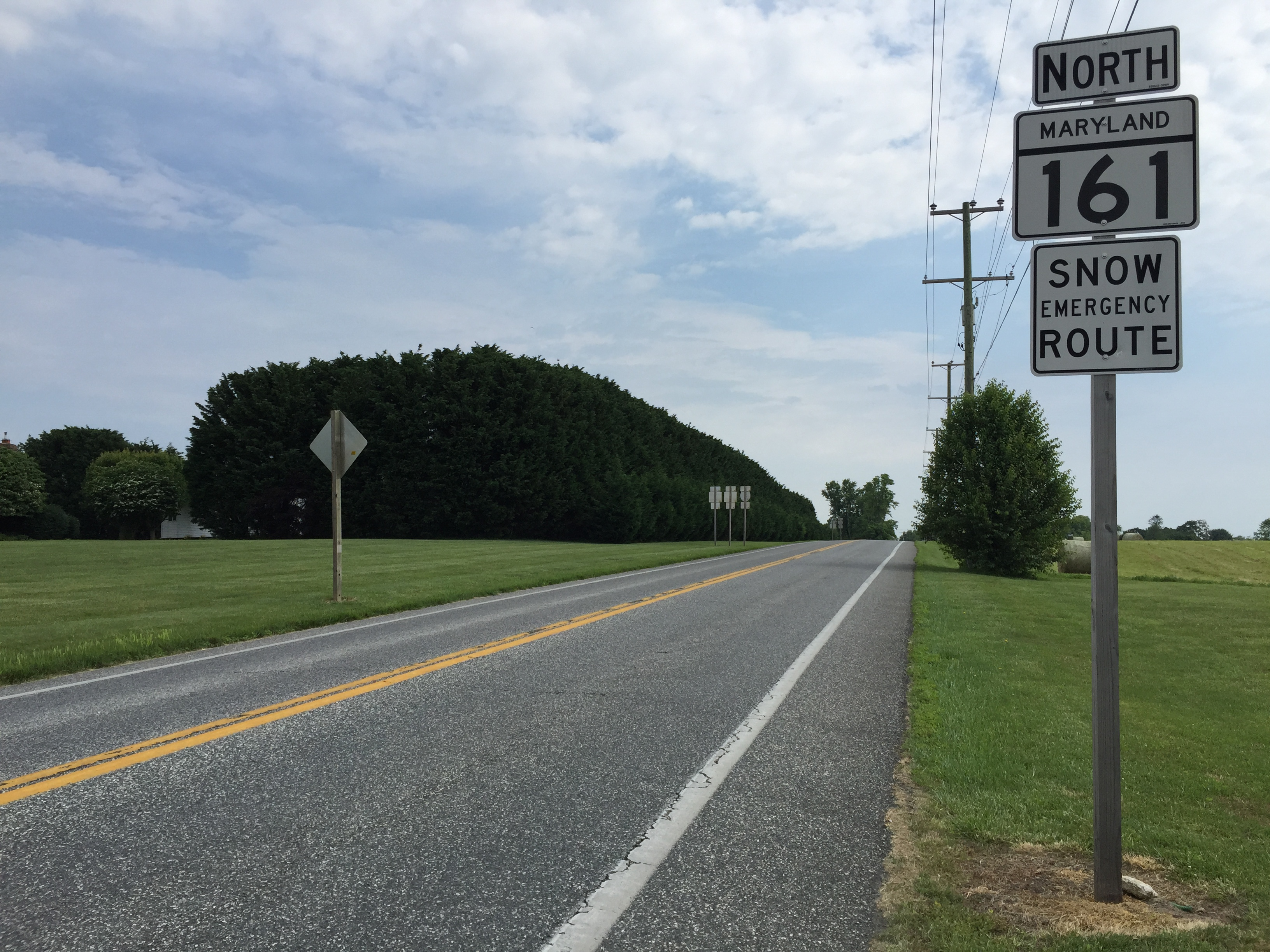 View north from the south end of Maryland State Route 161 (Darlington Road) northeast of Aldino in Harford County, Maryland